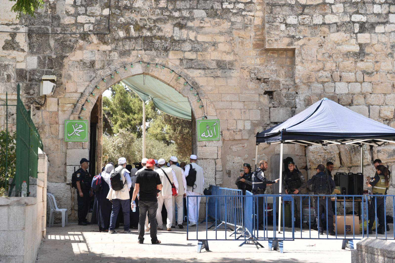 Temple Mount entrance policers on alert before July 28 clashes